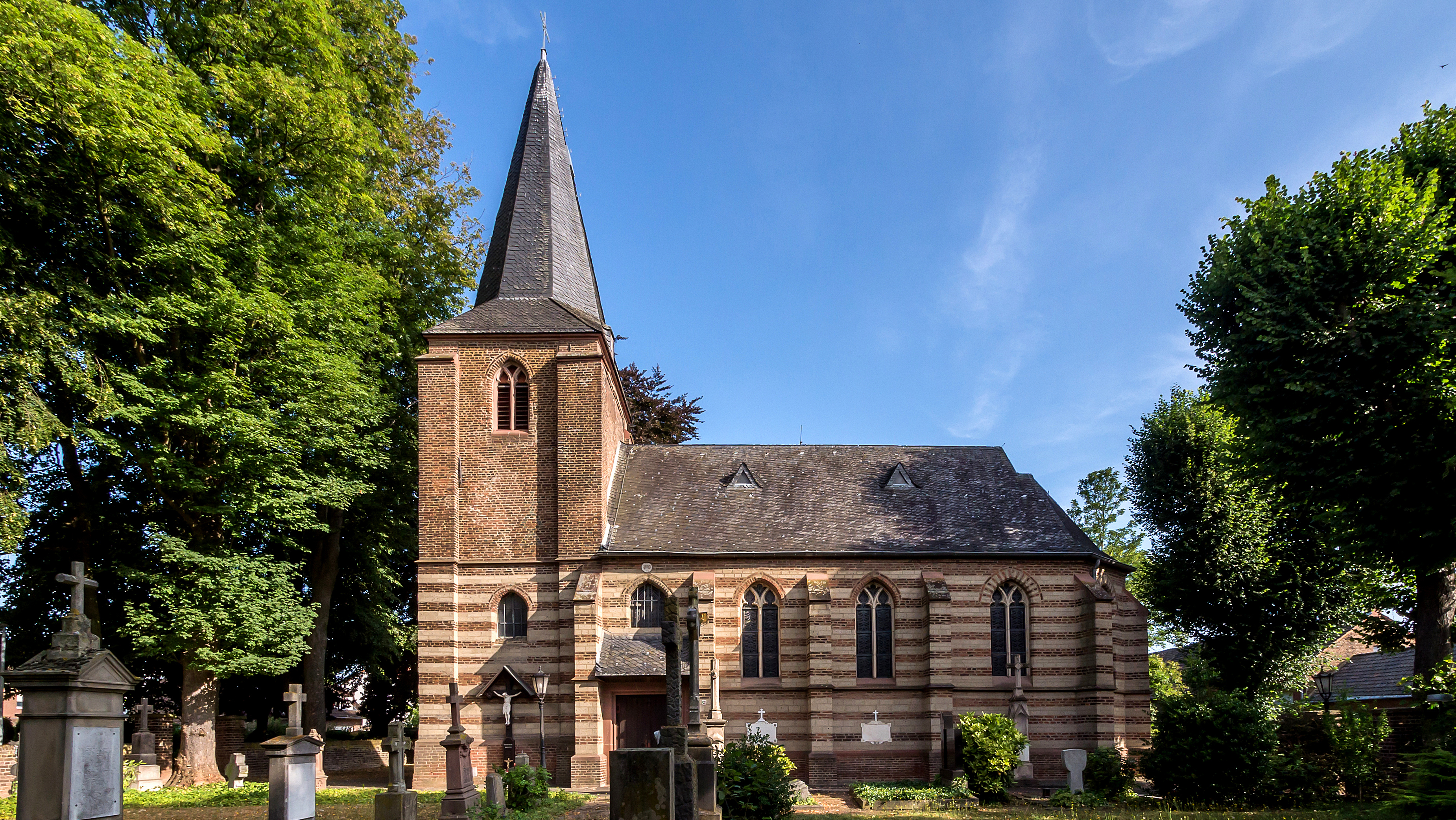 Kirdorf - Theodor-Heuss-Straße 46 Kirche, Alt-Sankt-Willibrordus IIIThis is a photograph of an architectural monument., no. 81